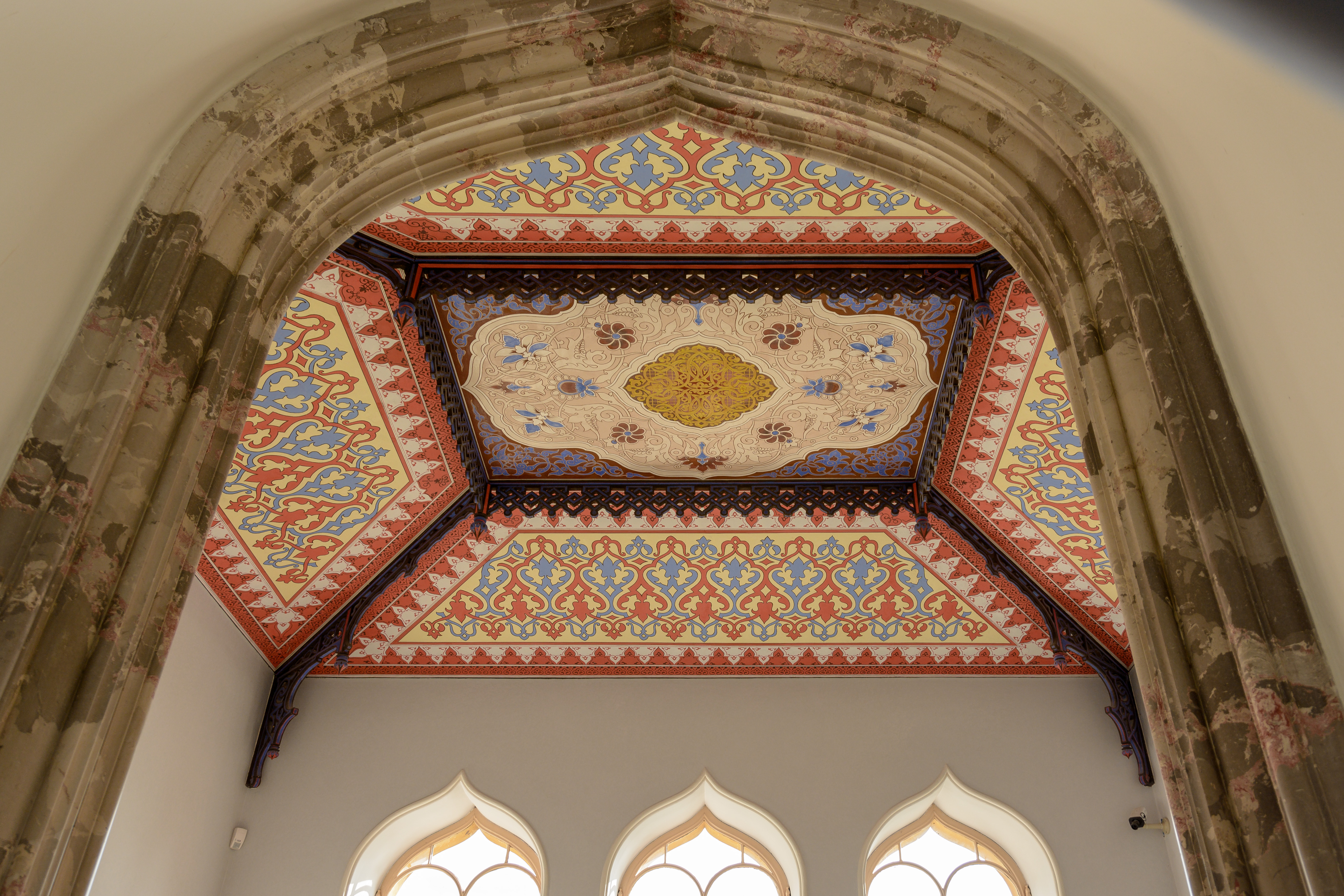 Minaret in Lednice